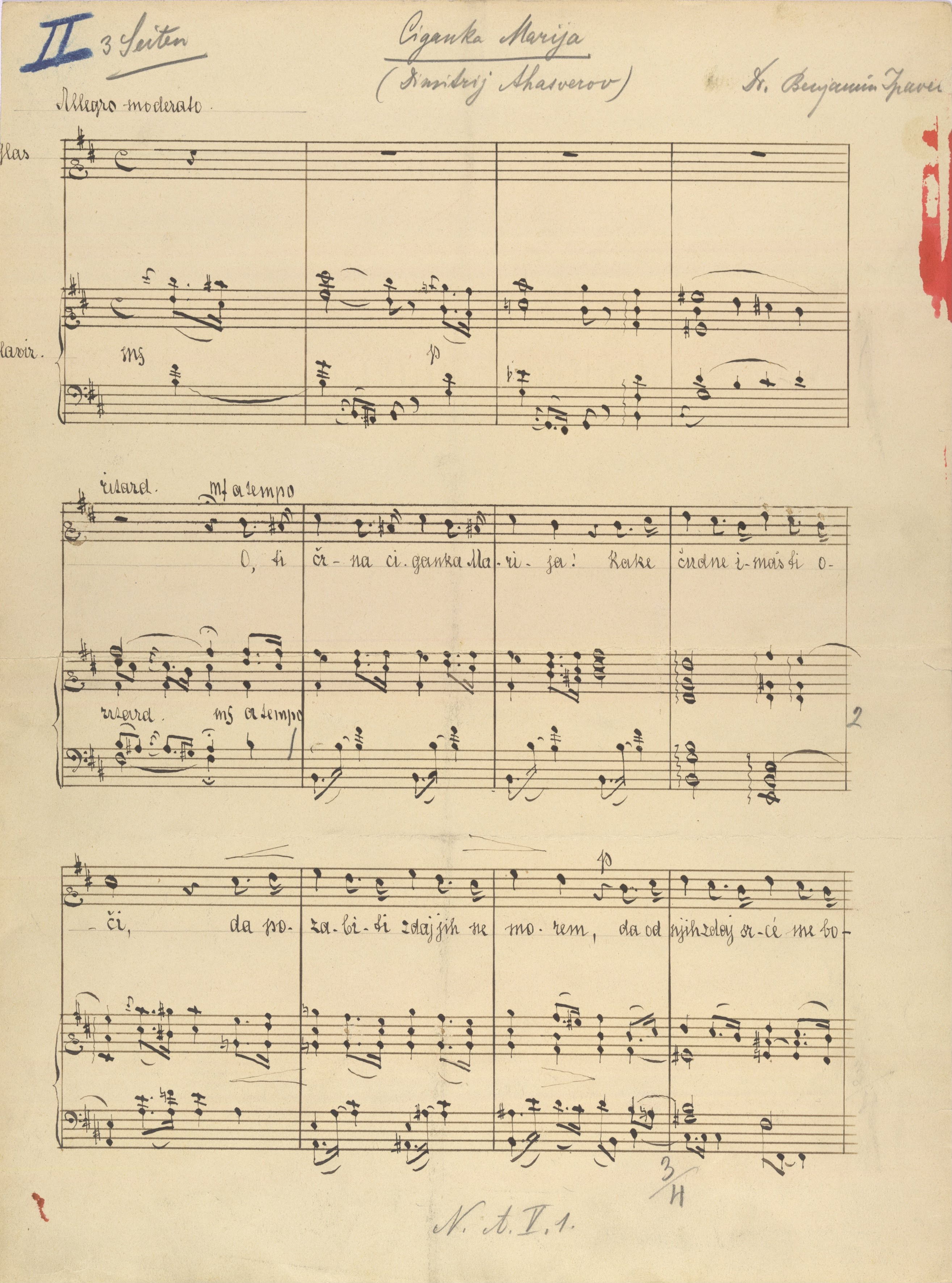 Ciganka Marija, manuscript.